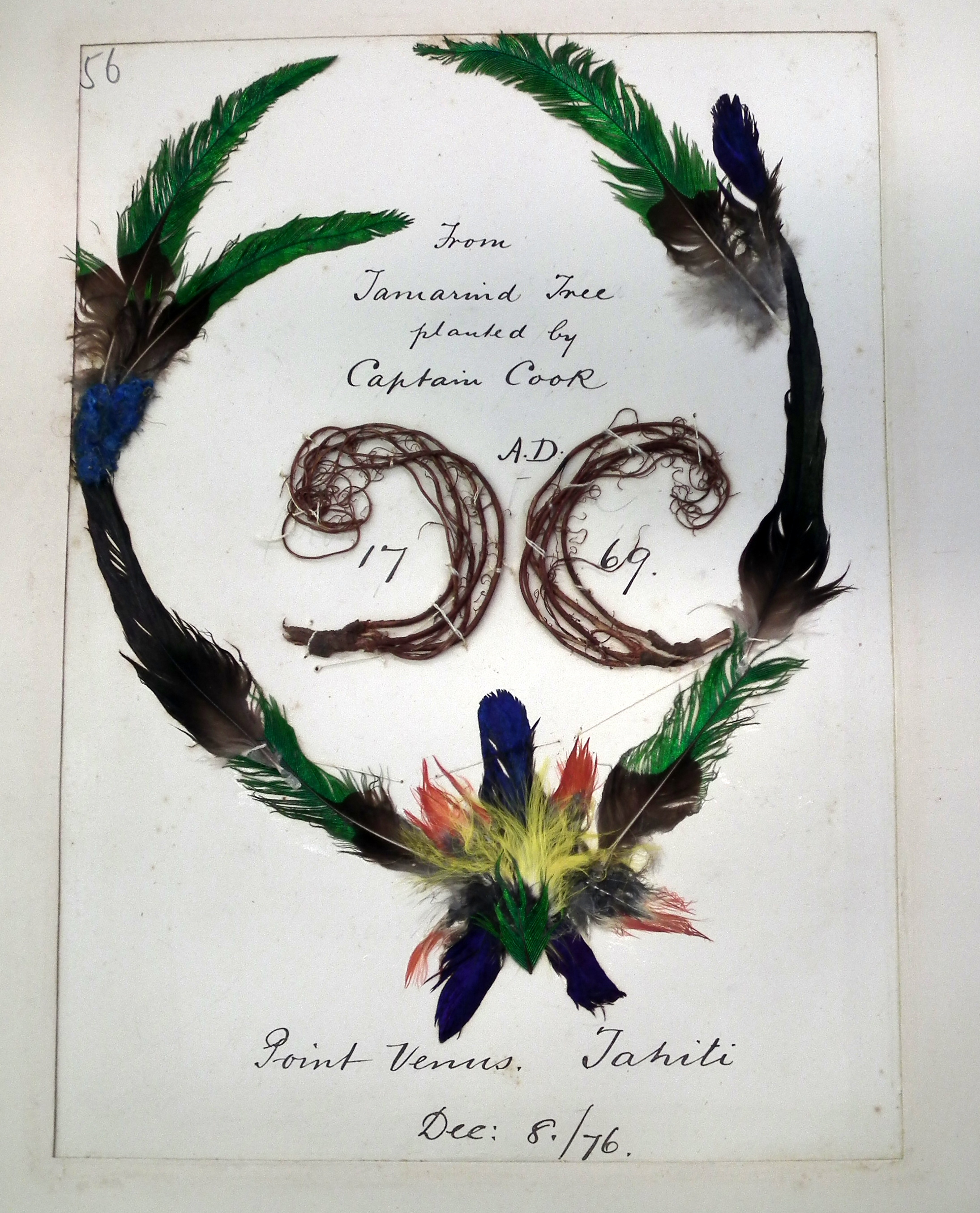 From Captain Cooks Tamarind tree now in Annie Brass albums in Hastings Museum. Obtained by Annie during round world trip in 1876